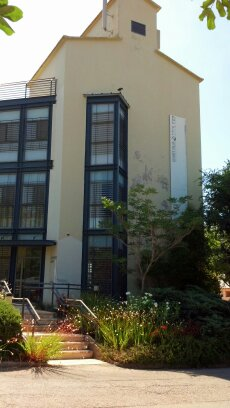 The silo tower in Eilon. Nowadays it hosts the management office of musical centre Keshet Eilon